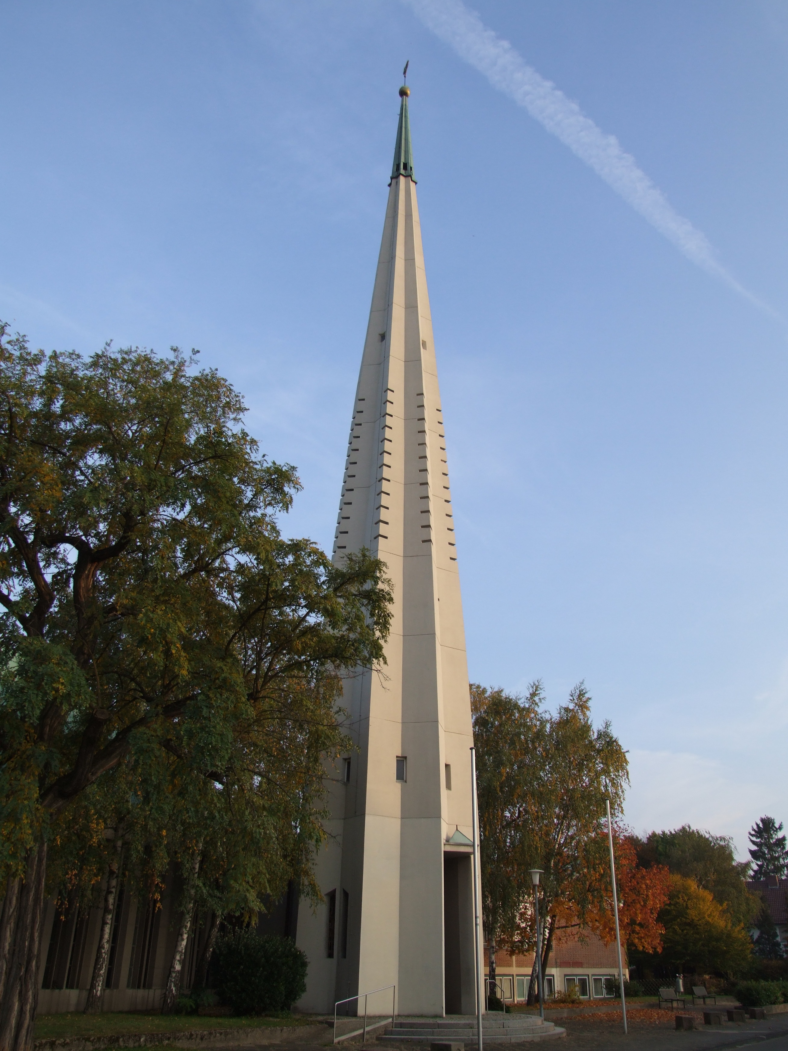 tower of Christuskirche (Speyer)